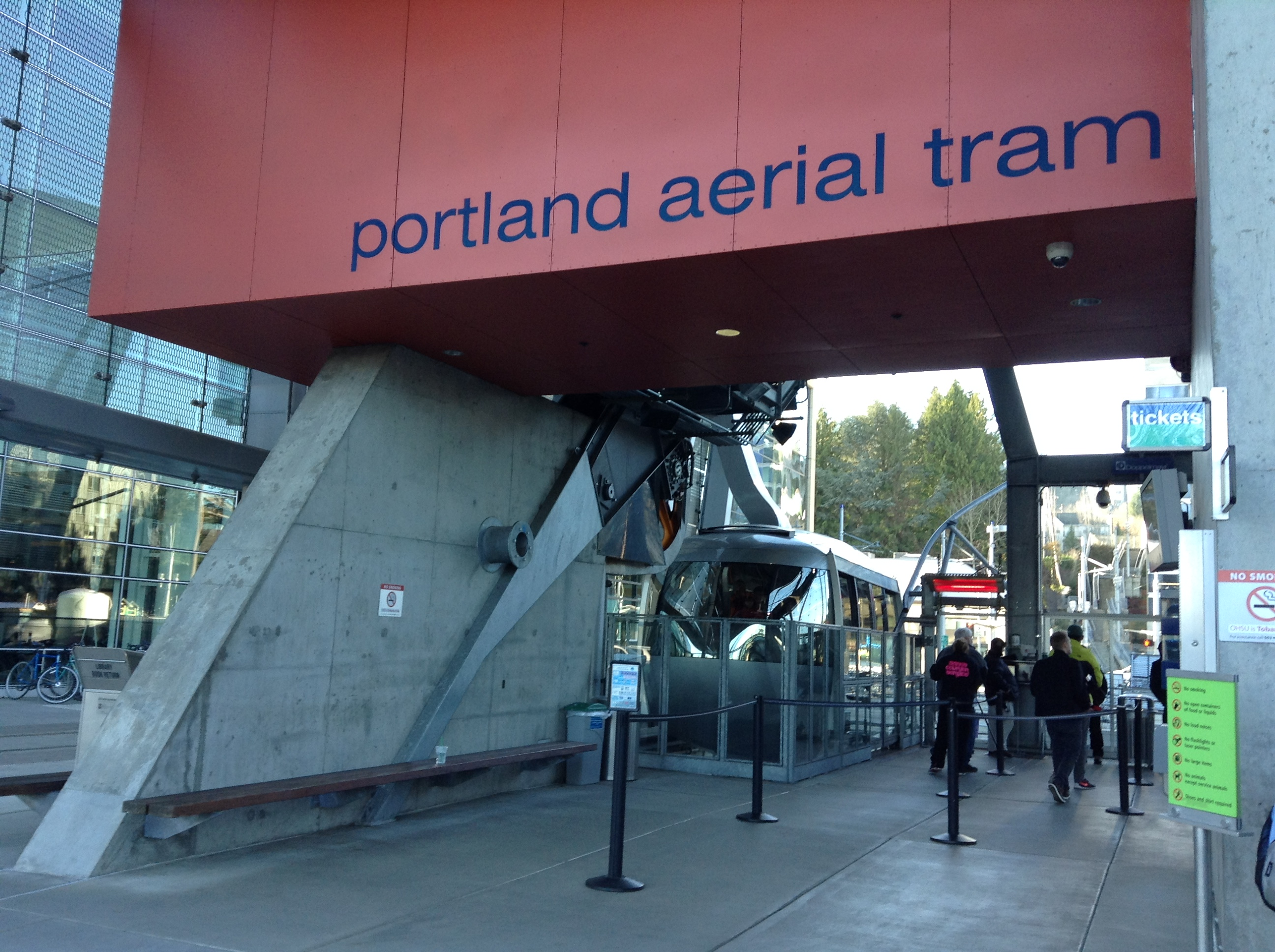 Lower terminal waiting area of the Portland Aerial Tram, located in the South Waterfront neighborhood.